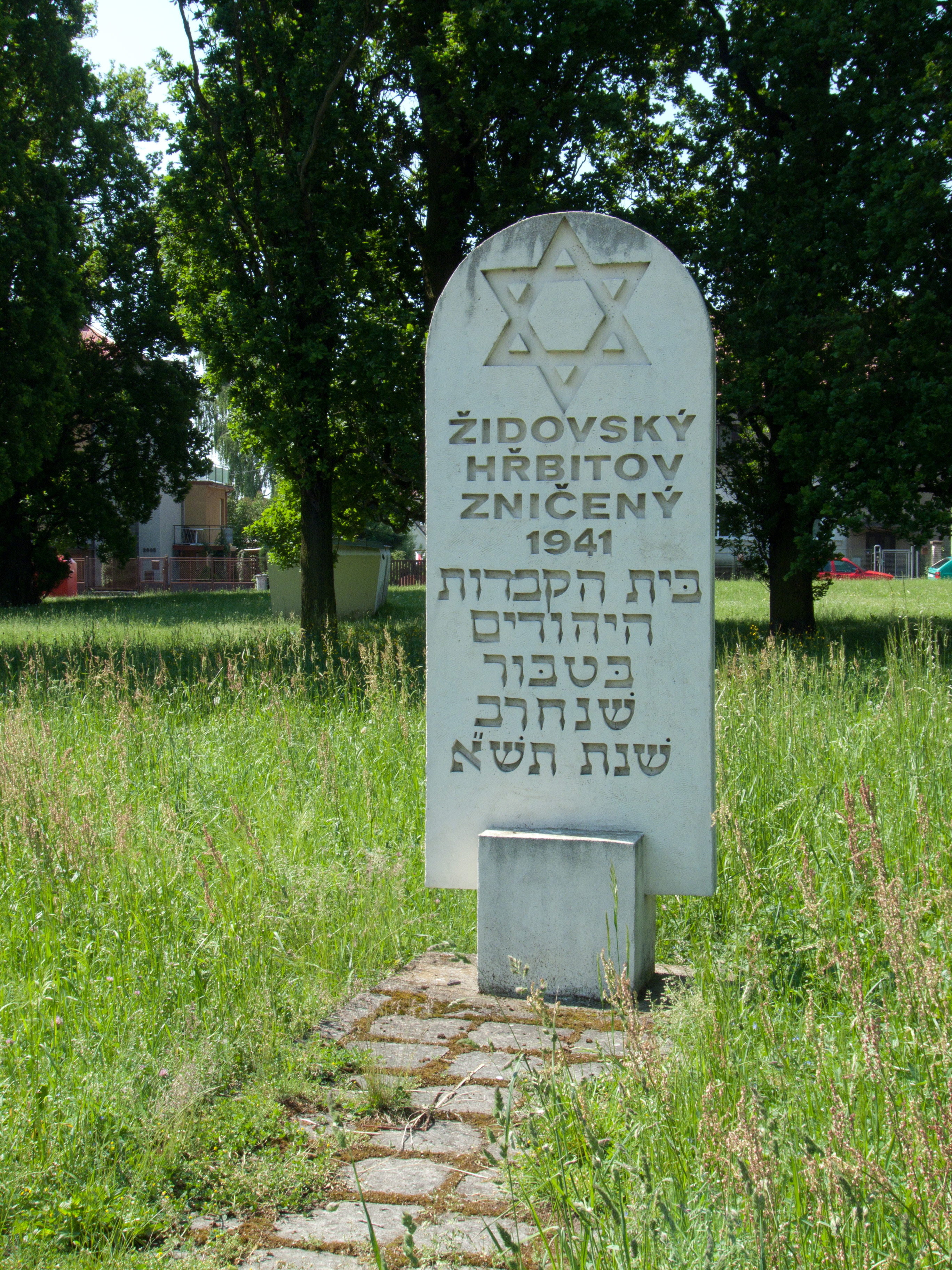 Memorial in the New Jewish cemetery in the town of Tábor, South Bohemian Region, Czech Republic. Česky: Stéla na Novém židovském hřbitově ve městě Tábor, Jihočeský kraj.